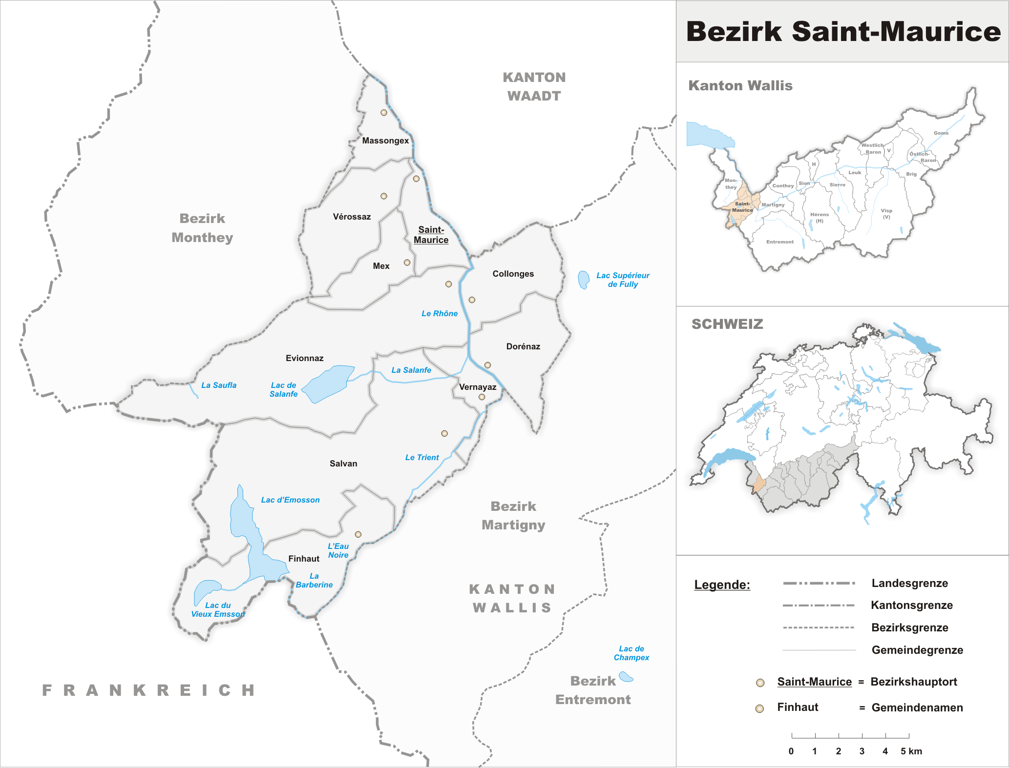 Municipalities in the district of Saint-Maurice